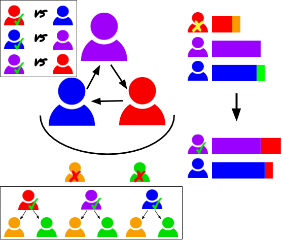 This is a diagram of Tideman's Alternative method for counting ranked votes.